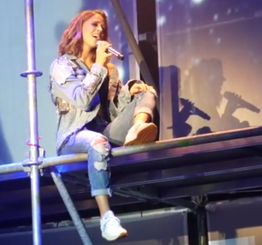 German Pop-Schlager-Singer Vanessa Mai during her "Für Dich Tour" at Alter Schlachthof, Dresden, Germany (24th October 2016).